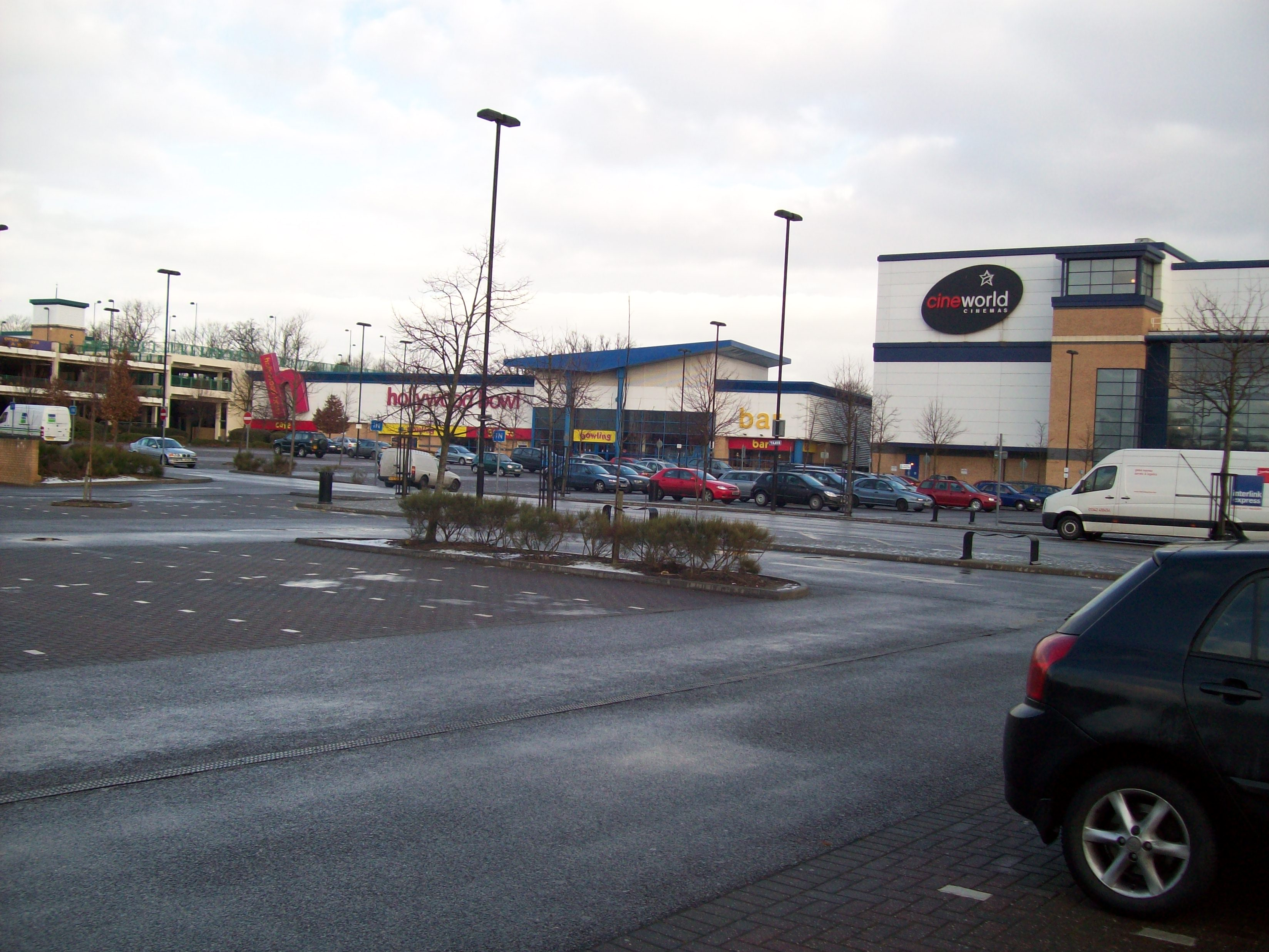 Crawley Leisure Park - visible are the Hollywood Bowl and Cineworld cinema